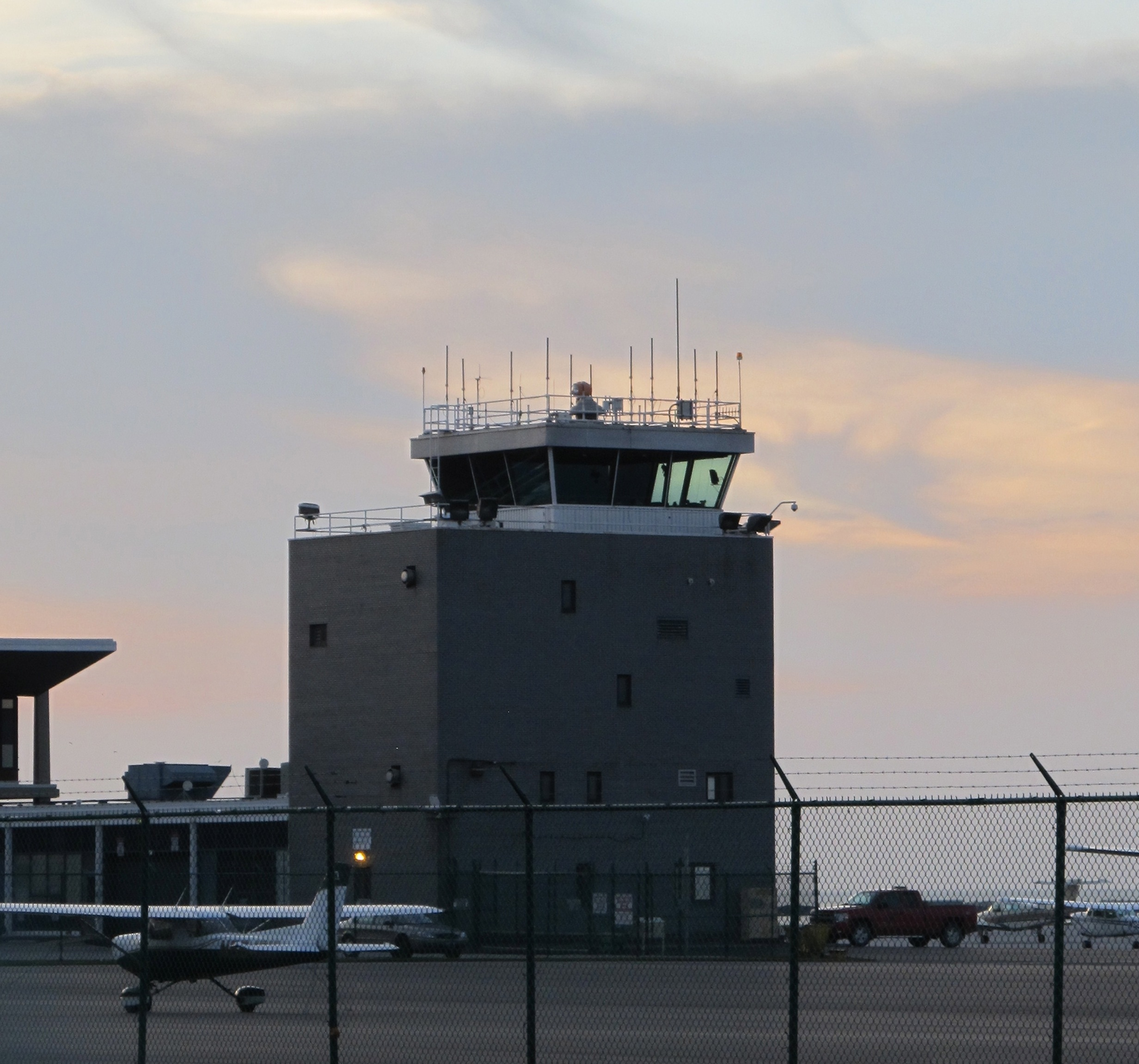 Airport Traffic Control Tower at KBKL